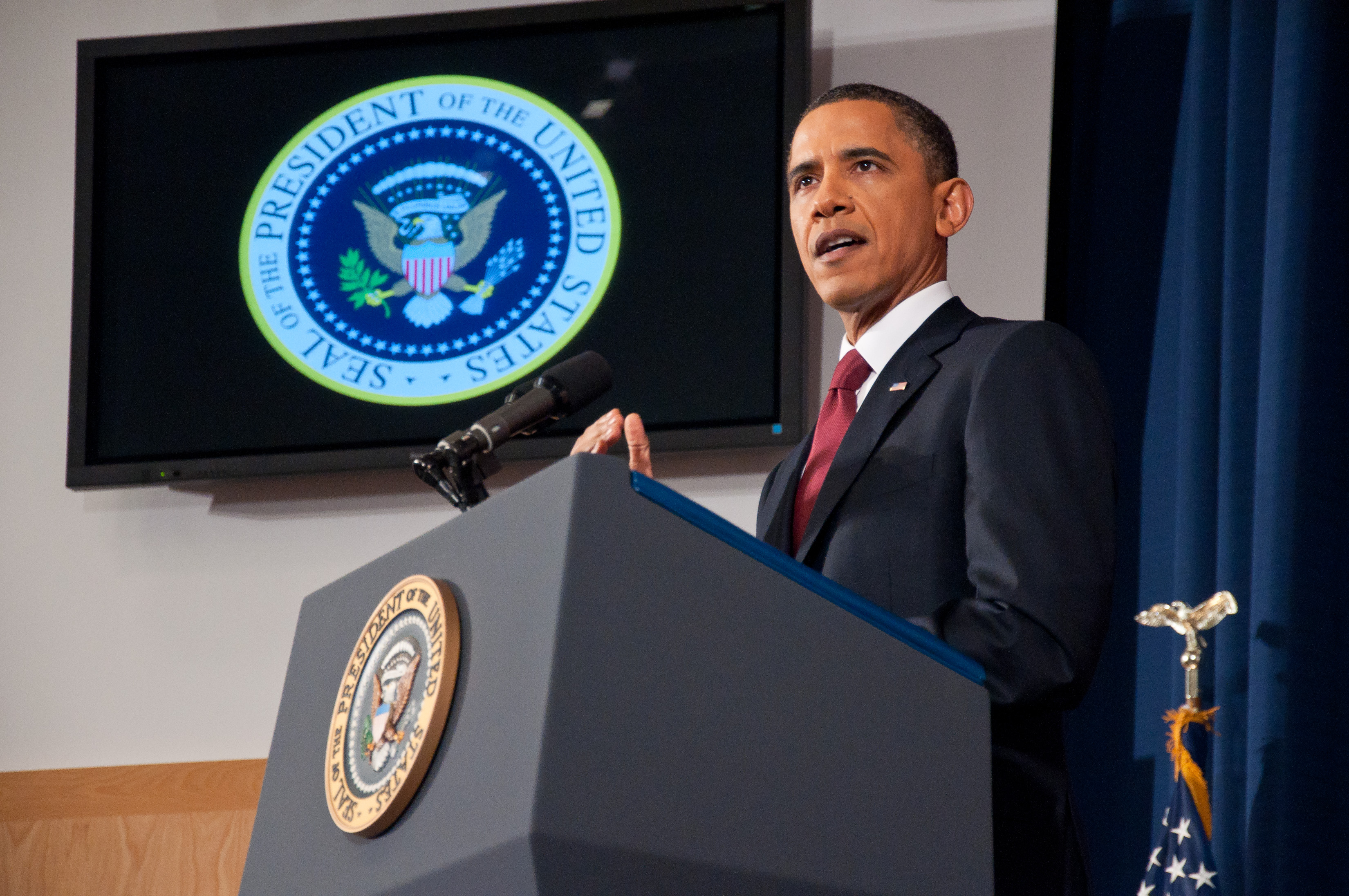 On Monday, March 28, 2011, President Barack Obama delivered an address at the National Defense University in Washington, DC to update the American people on the situation in Libya, including the actions the U.S. government has taken with allies and partners to protect the Libyan people from the brutality of Moammar Qaddafi, the transition to NATO command and control, and policy going forward.